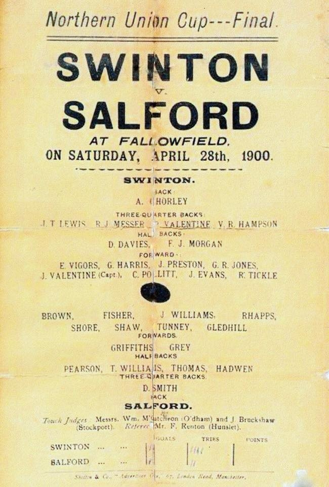 Handbill distributed at the 1900 Northern Rugby Union Challenge Cup Final on 28 April 1900